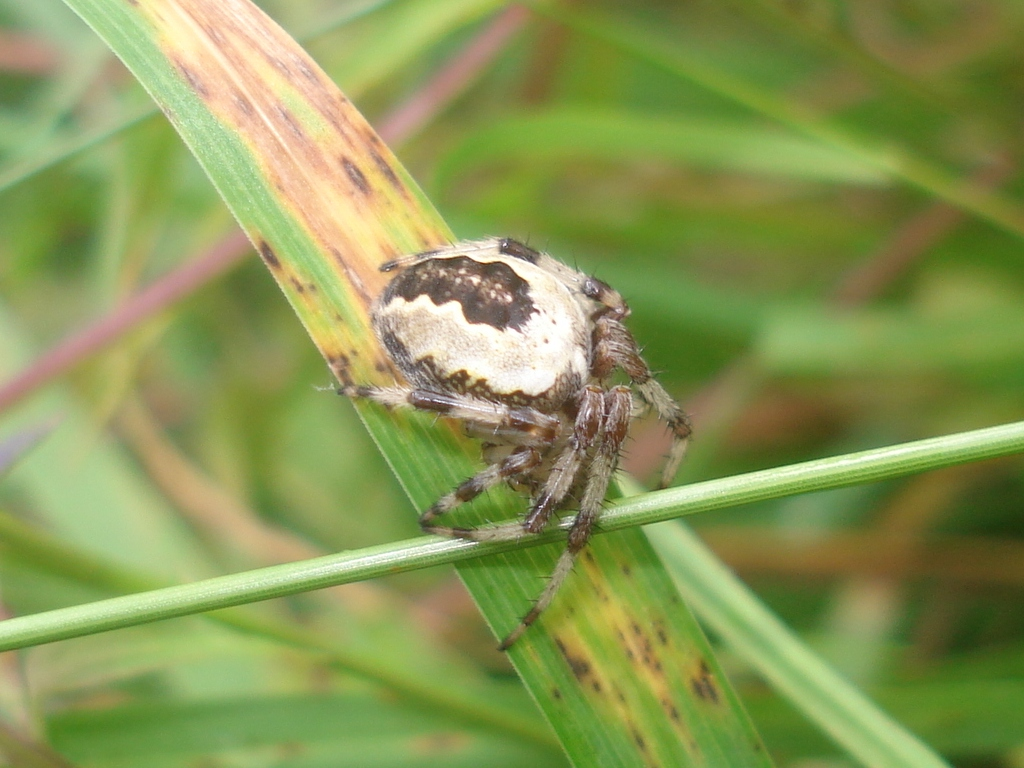 The Marbled Orb-weaver (Araneus marmoreus)